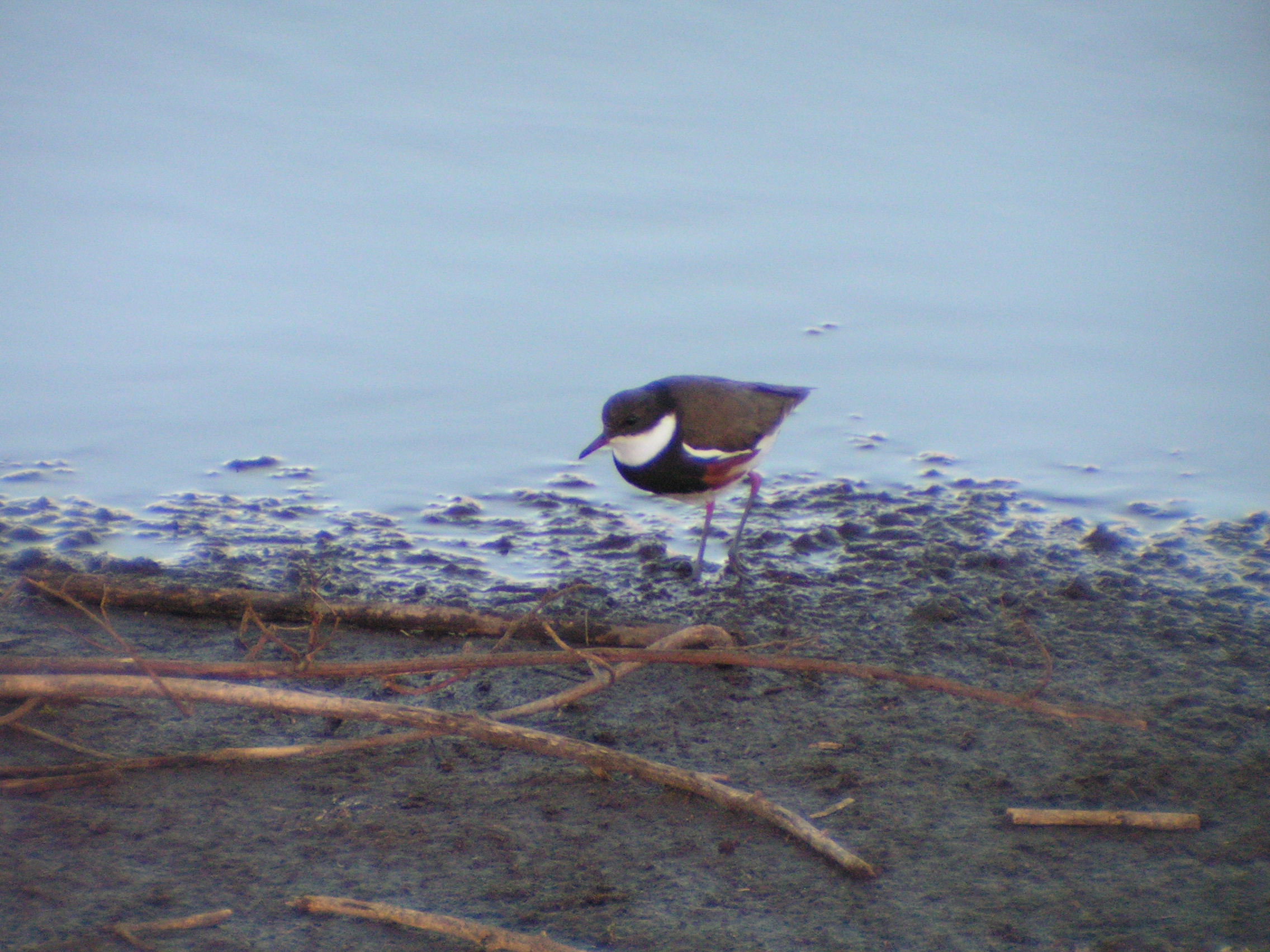 Red-kneed Dotterel (Erythrogonys cinctus)